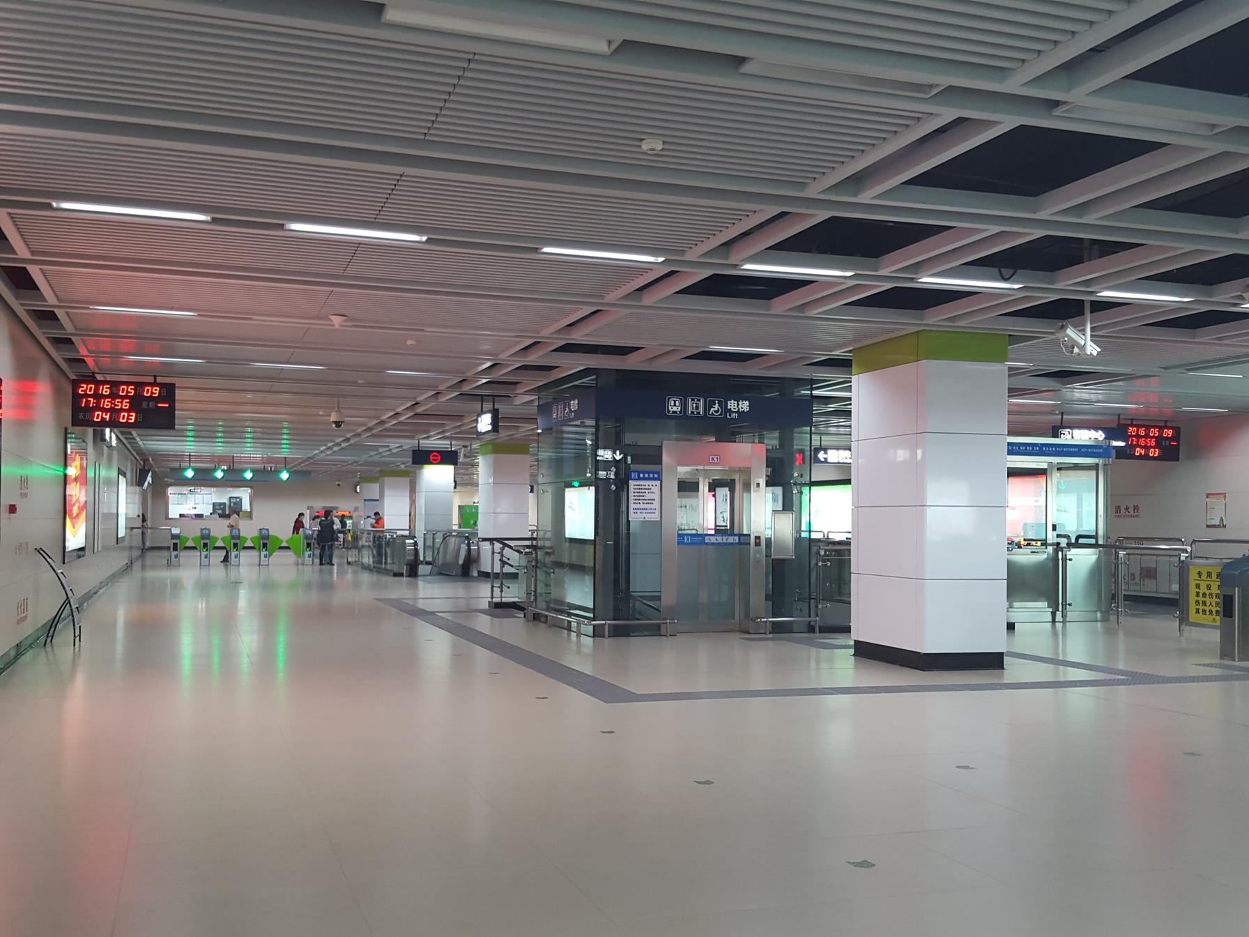 Concourse of Yongantang Station, Wuhan Metro